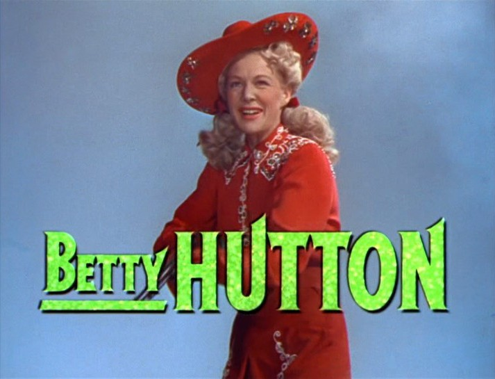 Cropped screenshot of Betty Hutton from the trailer for the film Annie Get Your Gun